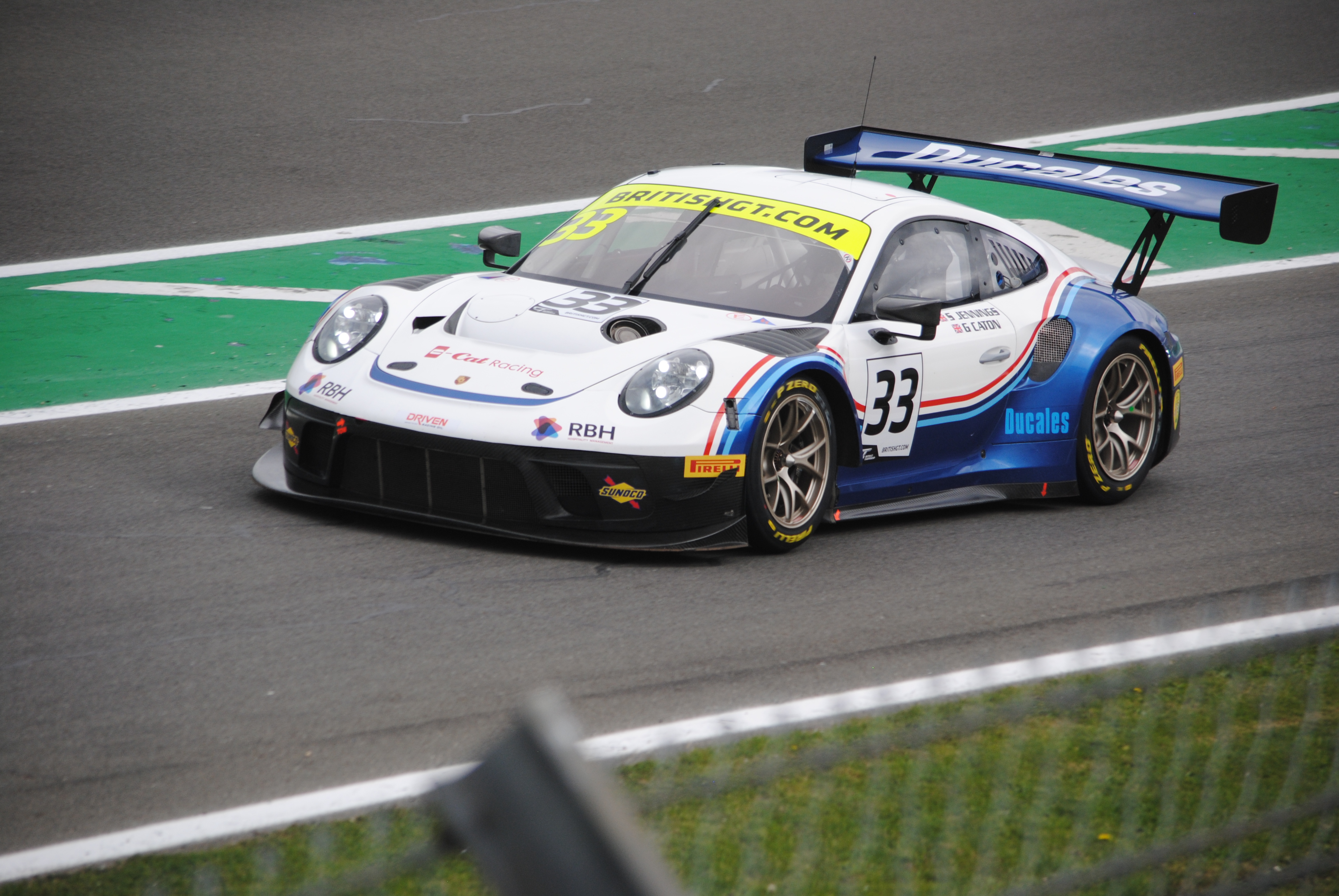 The new 2019 Porsche 911 GT3 R raced by Shamus Jennings and Greg Caton for G-Cat Racing.